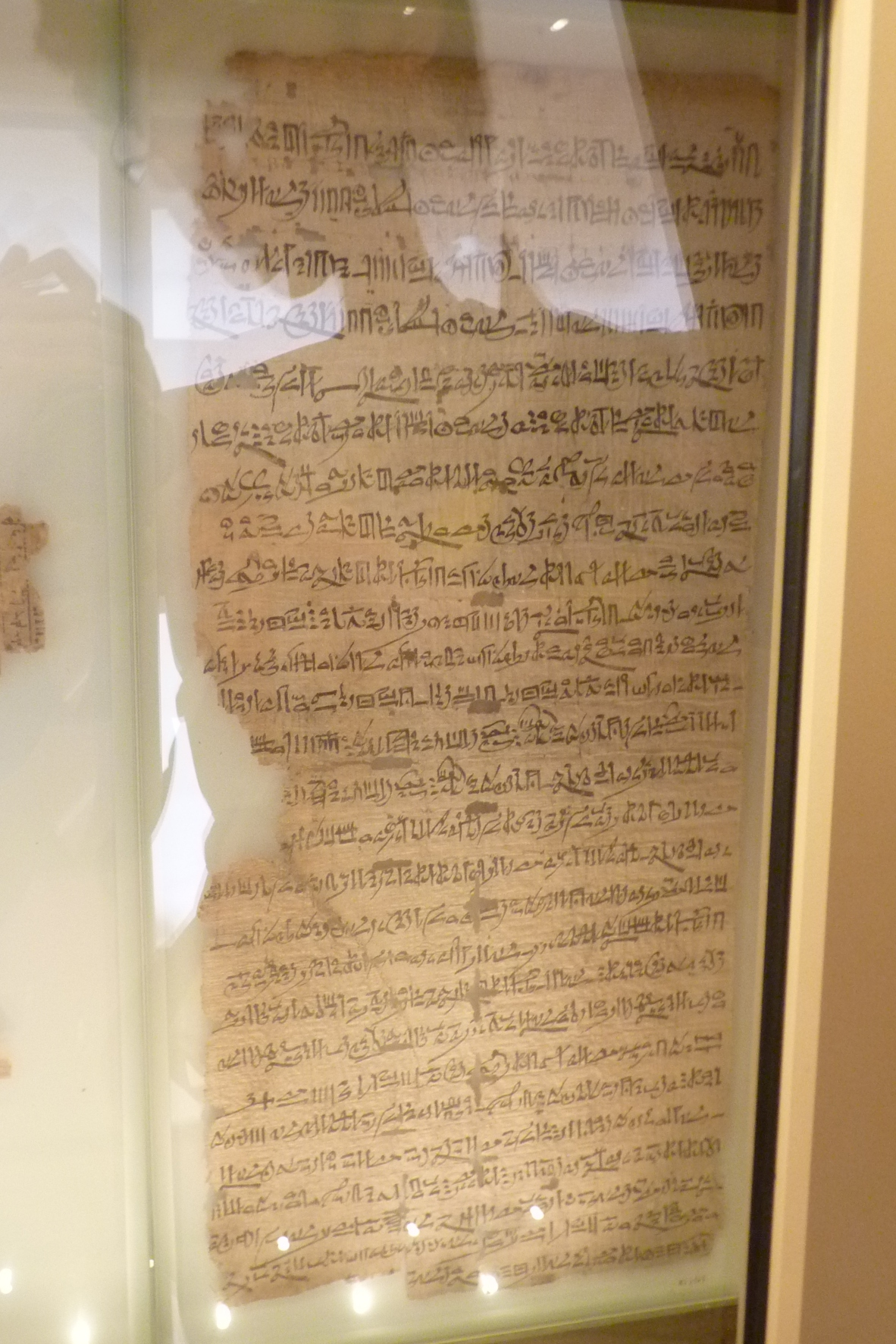 Papyrus Bologna 1086 (inv. KS 3161). It is a letter written by the scribe Bakenamun to the priest of Thot Ramose as a reply to many answers. The main theme concerns a Syrian slave named Nekedy, who was made farmer in the Temple of Thot in Year 3 (of Merenptah). Bakenamun asked for him to his keeper, to the chief interpreter Khaemope and to the vizier Merysekhmet, but he was always unsuccessful. Hieratic papyrus, unknown provenience, reign of Merenptah, 19th Dynasty, New Kingdom. Archeological museum of Bologna (Italy), KS 3161.